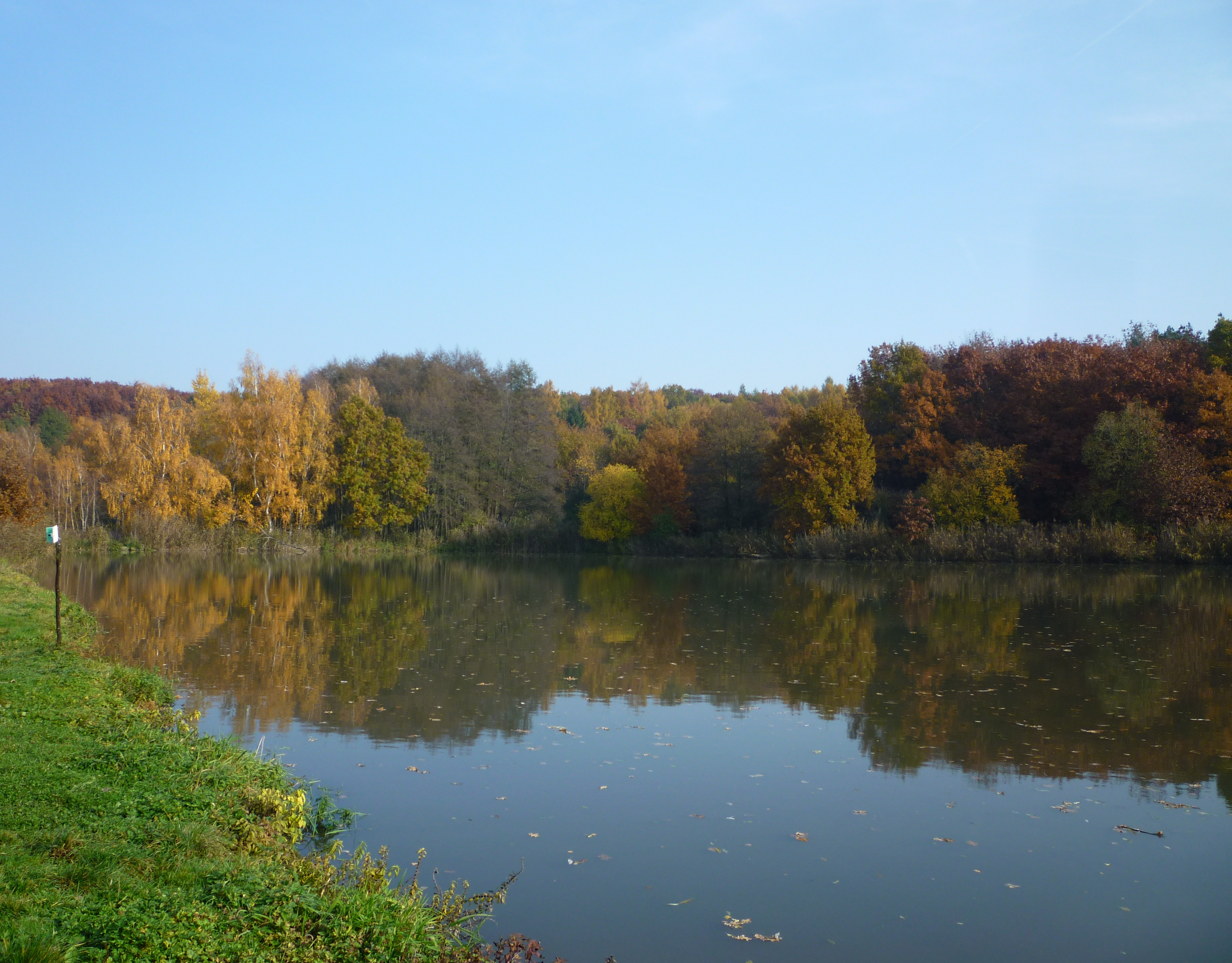 Myslivecký pond in natural monument Lítožnice in Prague area, Czech Republic